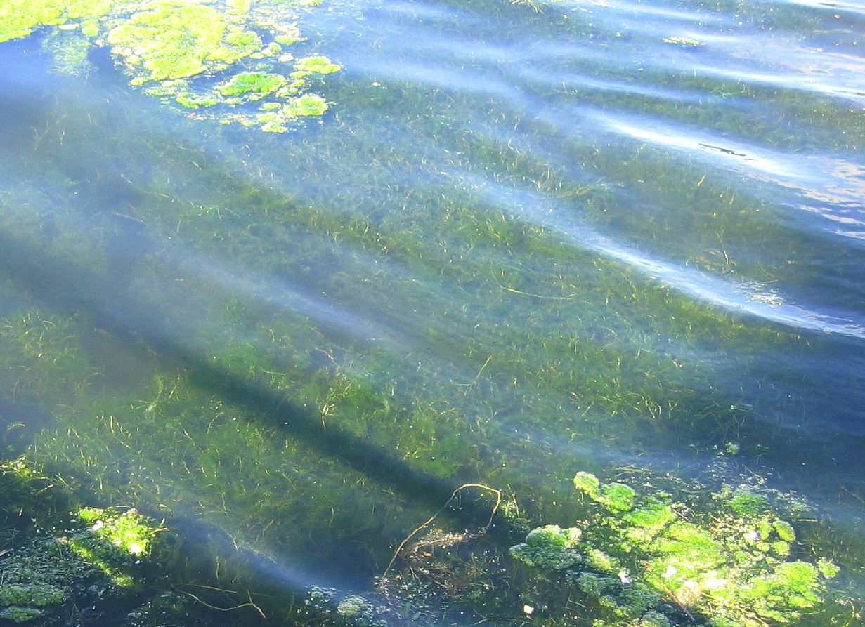 Masses of Elodea (possibly E. nuttallii), Hengsteysee, North Rhine-Westphalia, Germany.